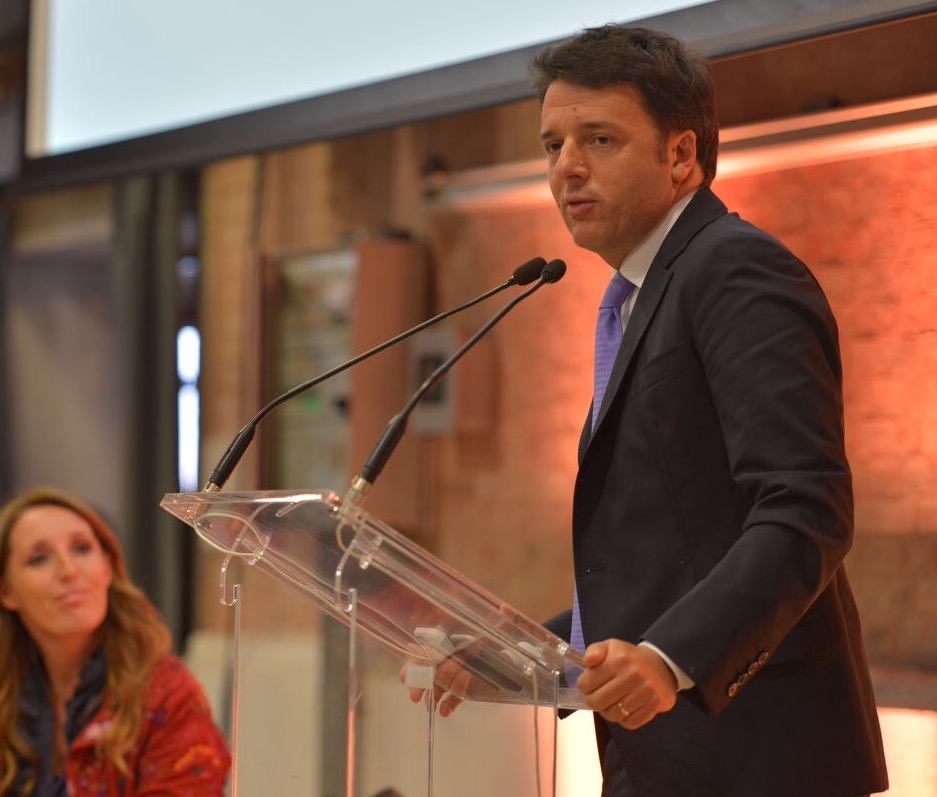 Venezia, 16/10/15 - inaugurazione del nuovo plesso universitario di San Giobbe - Matteo Renzi Michele Bugliesi luigi brugnaro ©Marco Sabadin/Vision